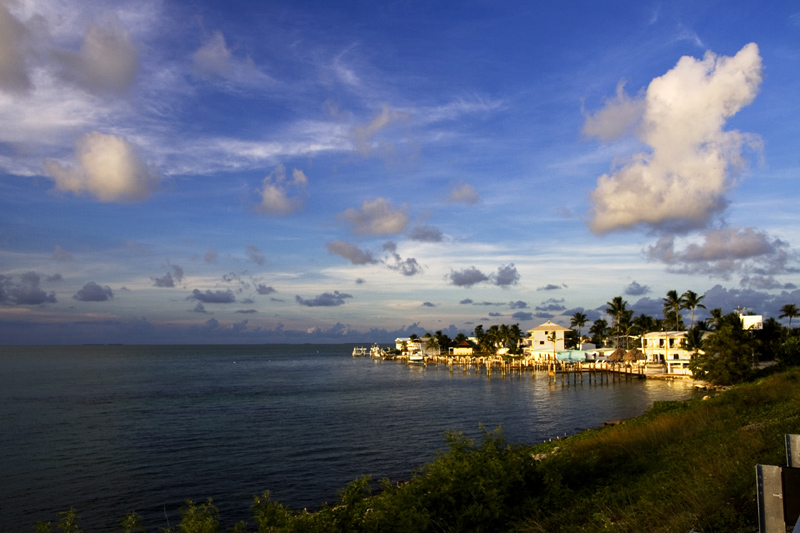 Beach resort near Marathon in the Florida Keys.